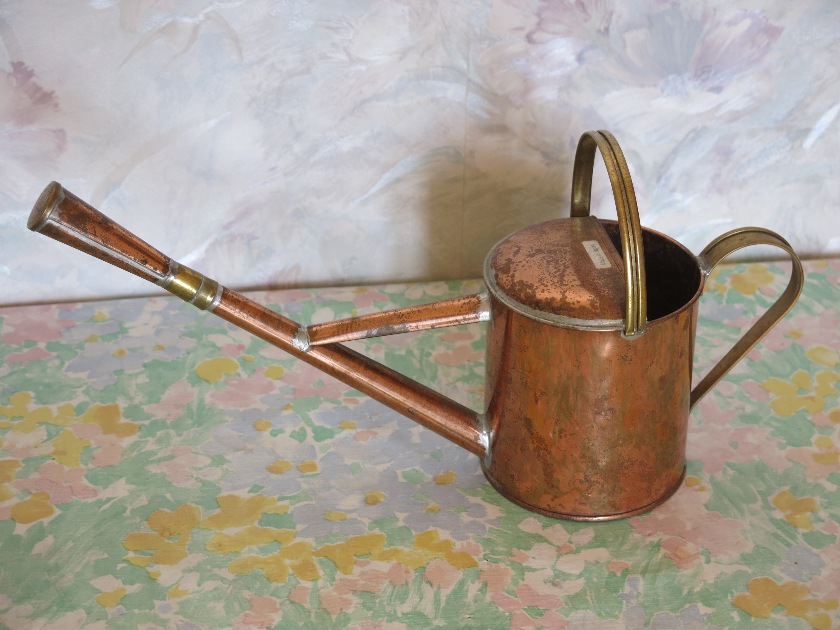 Watering can for bonsai. Copper. Made in Japan.